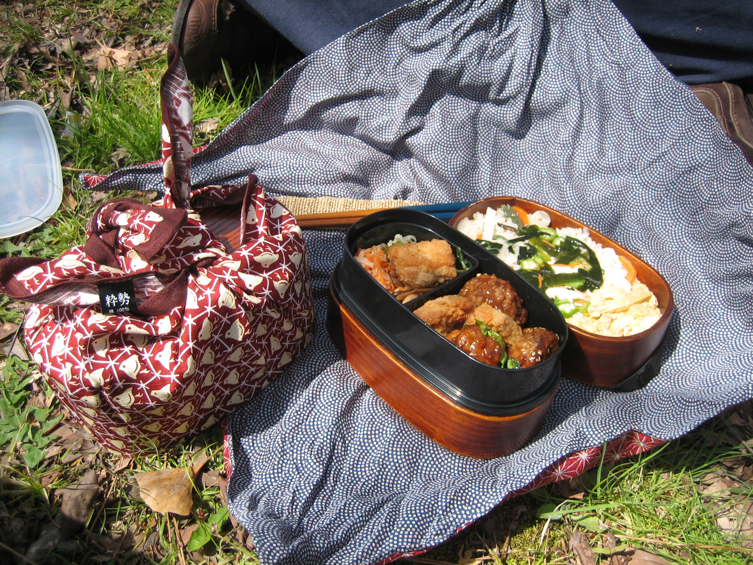 A typical home made Bento - note how it has been wrapped in a furoshiki Attribution: Kraig Donald